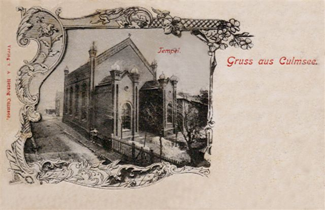 Old Synagogue in Chełmża